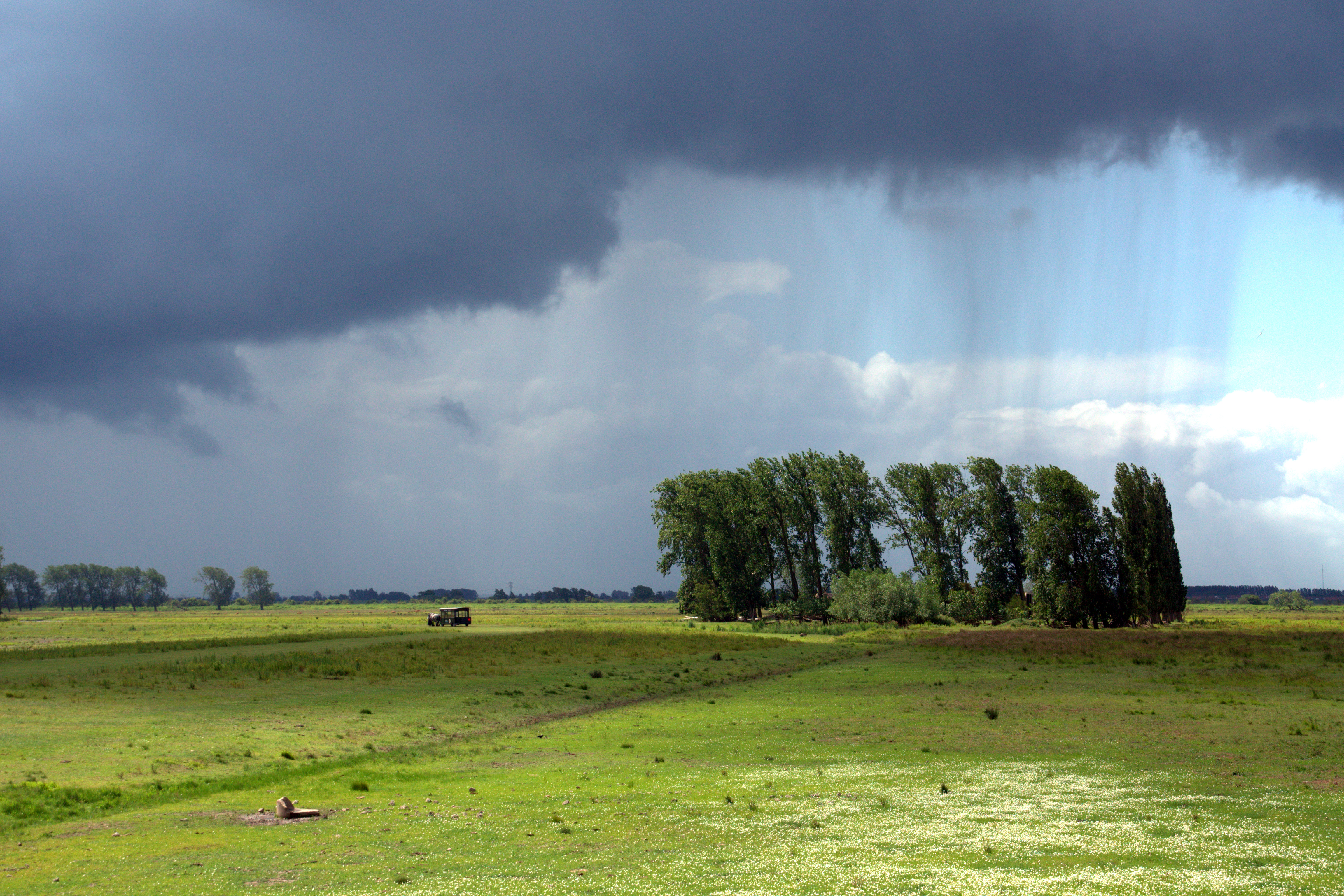 Dark clouds with rain coming in over a grove of trees in Tiengemeten, Zuid-Holland, the Netherlands.